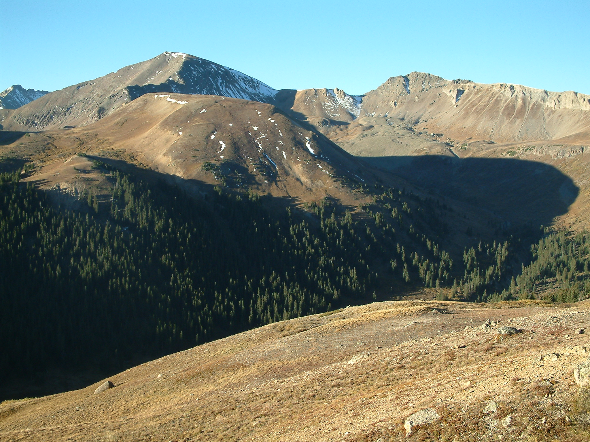 Taken by Jesse Varner, Sept. 27, 2003